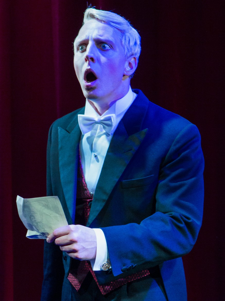 Pelle Emil Hebsgaard in the Copenhagen theater Folketeatret's production of the play "Frøken Nitouche" (Mam'zelle Nitouche) by Henri Meilhac and Albert Millaud.